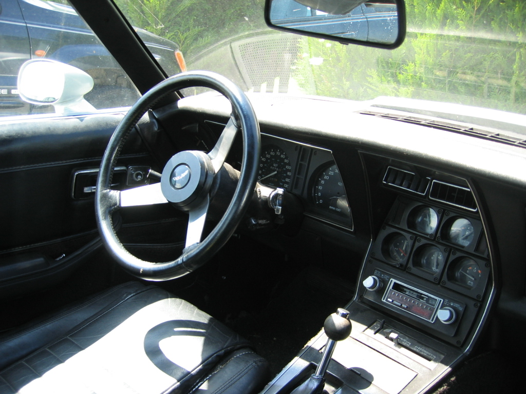 Dashboard of a 1979 Chevrolet Corvette